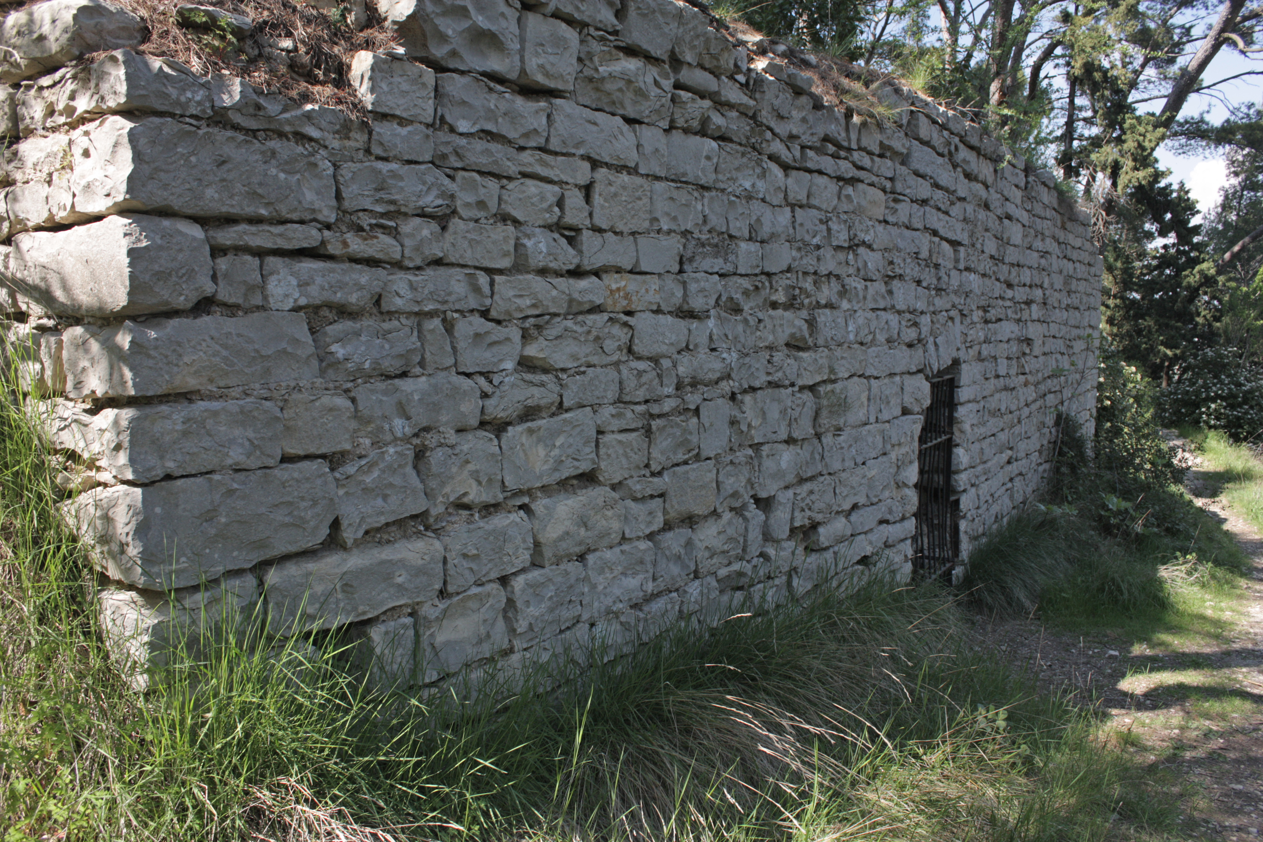 One of the few remains of the castle of Guillaume de Nogaret